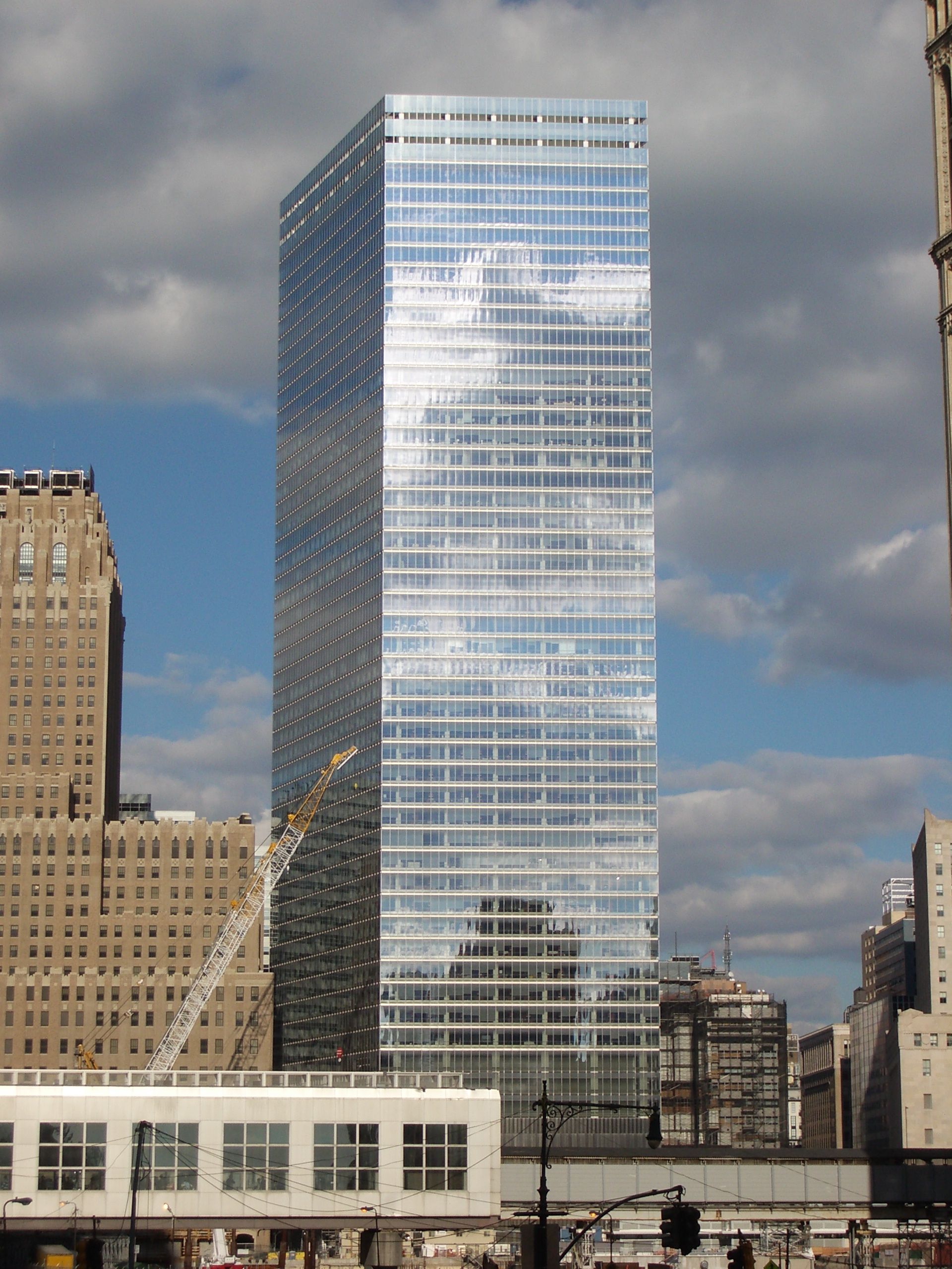 The new 7 World Trade Center tower seen from the southwest.